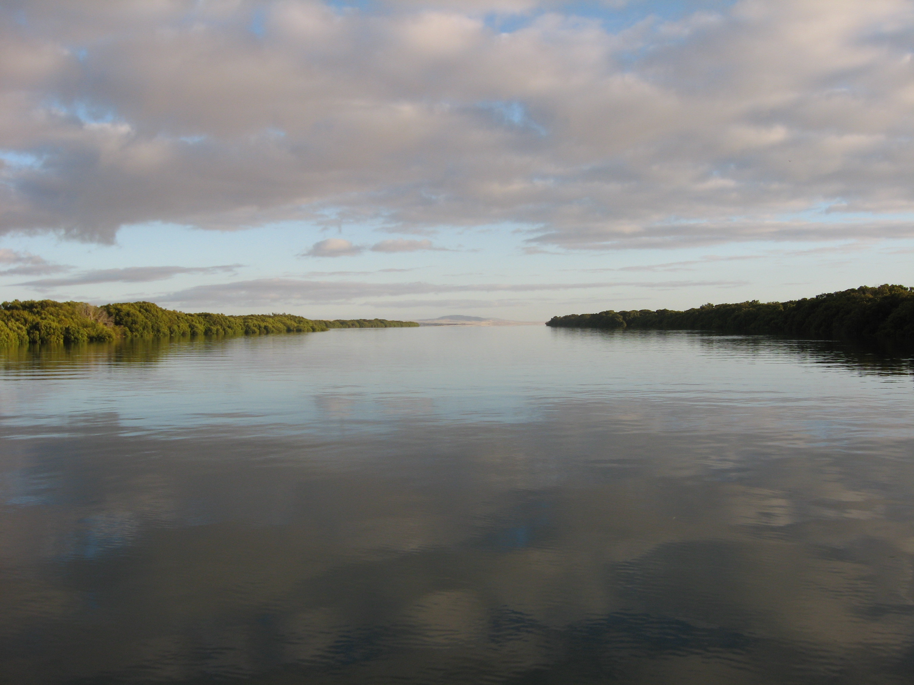 Viewed at high tide, looking north toward The Hummocks.